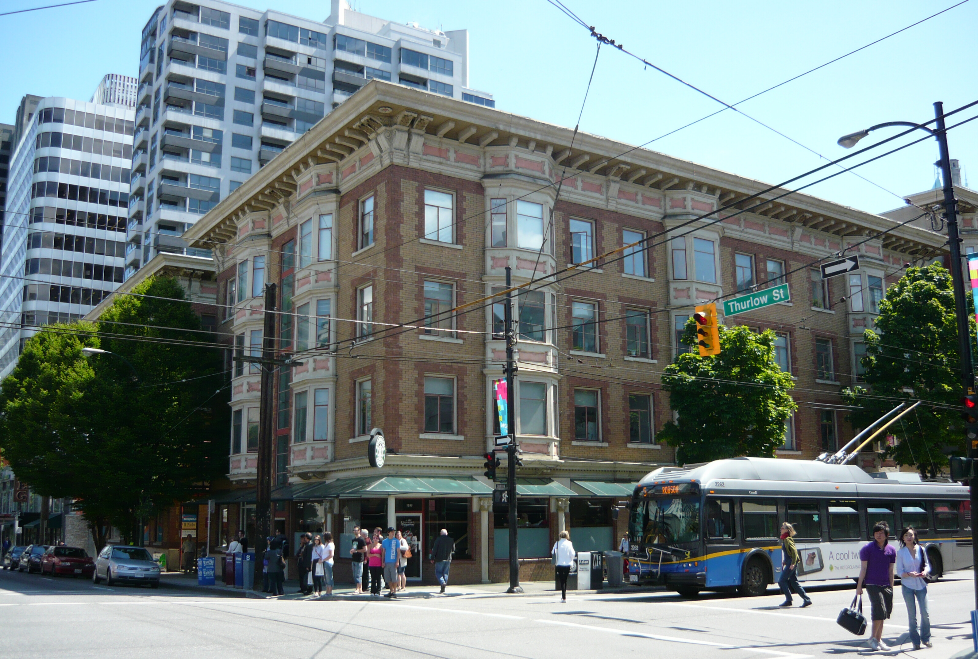 Manhattan Apartments (1908), 784 Thurlow Street at Robson Street, Vancouver, British Columbia, Canada. Architects: Parr and Fee.